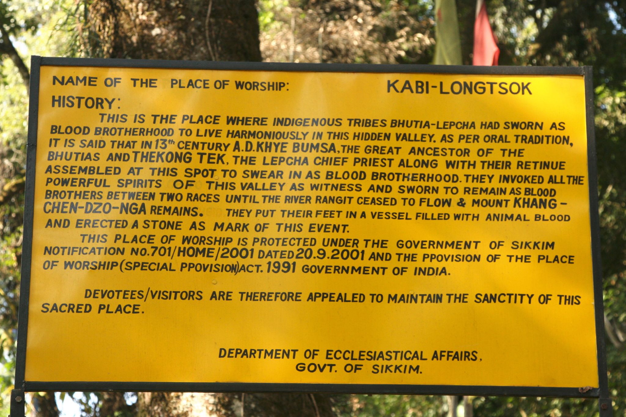 Kabi Lungchok is 17 kms from Gangtok on the North Sikkim Highway. This is where the historic treaty of blood brotherhood between the Lepcha Chief Te-Kung-Tek and the Bhutia Chief Khey-Bum-Sa was signed ritually. The spot where the ceremony took place is marked by a memorial stone pillar amidst the cover of dense forest.